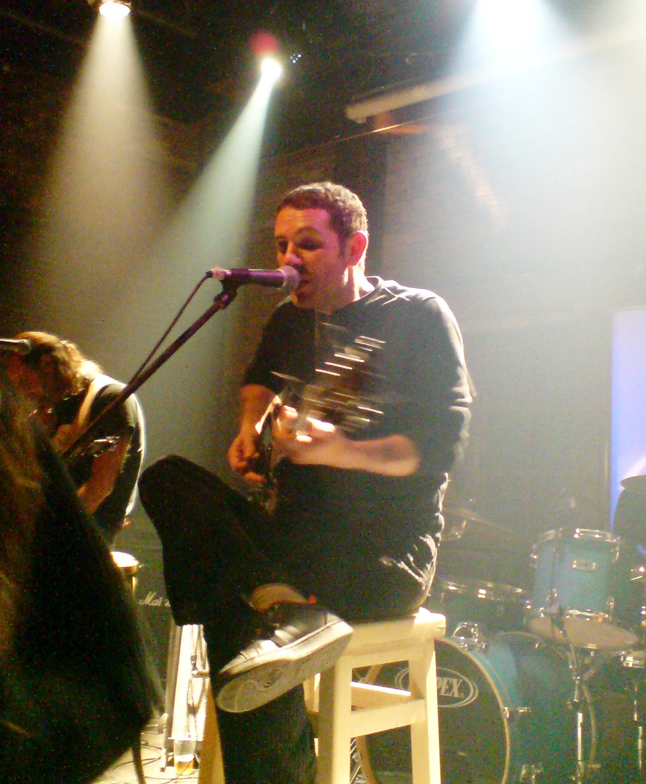 Foto of Pavlos Pavlidis at Mylos (Xylourgeio), Thessaloniki, Greece.